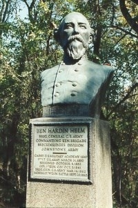 Bust of Brigadier General B. H. Helm by Anton Schaaf. Erected in 1914 at Vicksburg National Military Park.